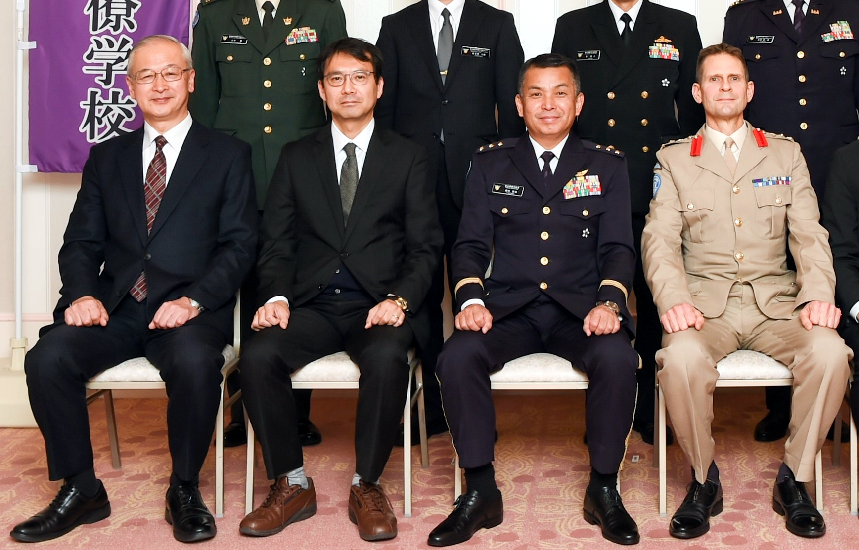 Tim Wildish, Special Assistant to the Military Adviser of the Office of Military Affairs, Department of Peace Operations, United Nations, Hikaru Yamashita, Head of the Government and Law Division, Security Studies Department, National Institute for Defense Studies, Peter Conroy, Commanding Officer of the Peace Operations Training Centre, Defence Force, Gorō Matsumura, former Commanding General of the North Eastern Army, Ground Self-Defense Force, and Hideaki Shinoda, Professor of the Institute of Global Studies, Tokyo University of Foreign Studies, posed for the photo with Yasushi Kiyota, Commandant of the Joint Staff College, at the Hotel Grand Hill Ichigaya in Shinjuku Ward, Tōkyō Metropolis on December 2, 2019.